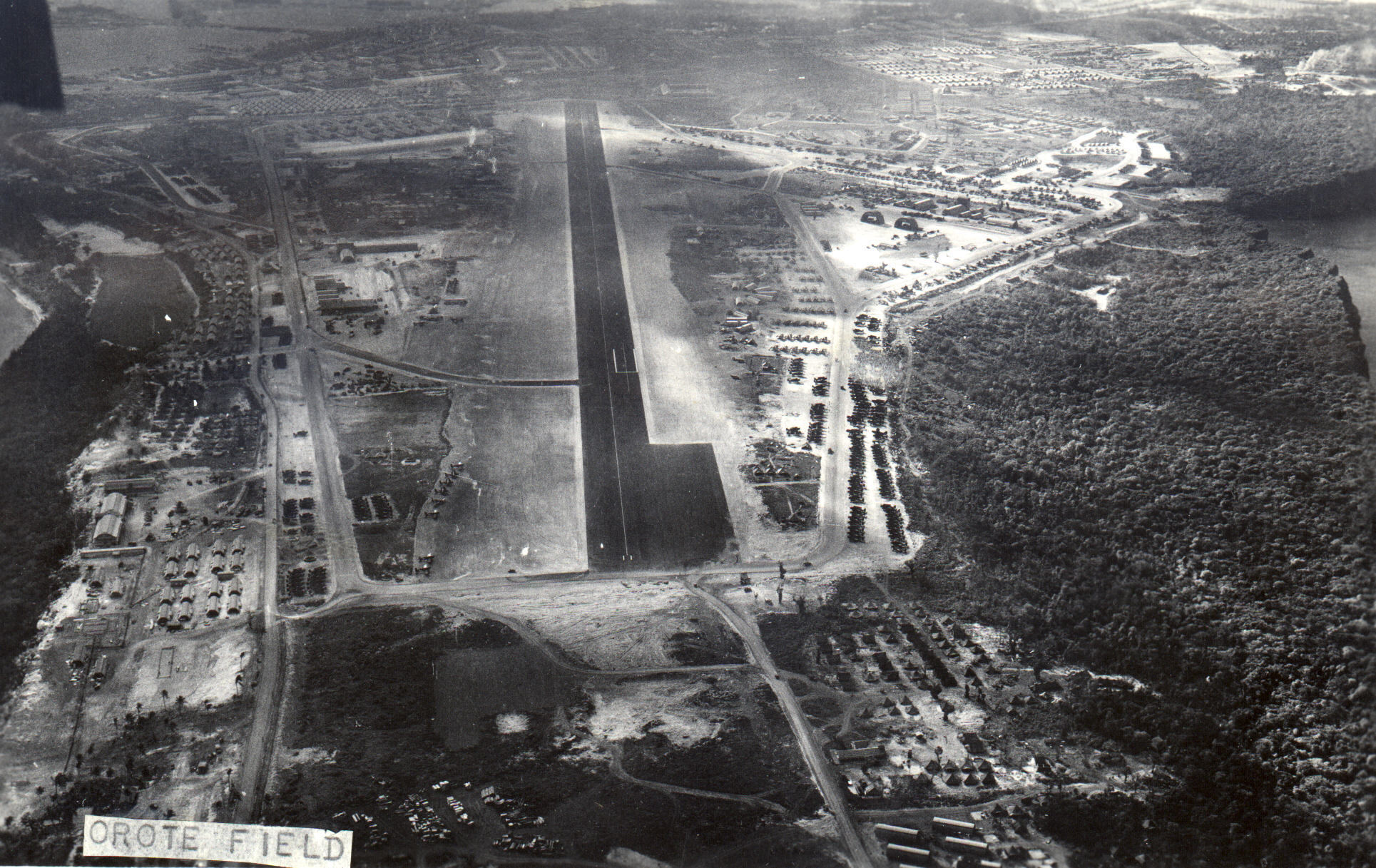 Aerial view of Orote airfield, Guam